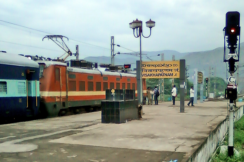 Simhadri Express with LGD based WAP-4 loco at Visakhapatnam railway station